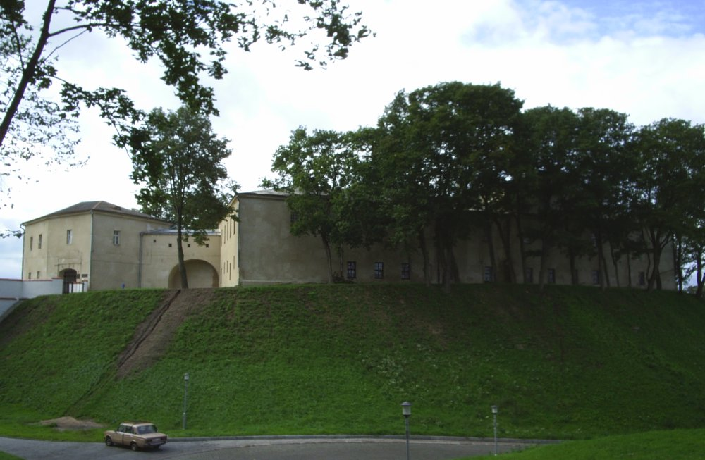 Hrodna, Old Castle (Batory's Castle), cityside, 2006.